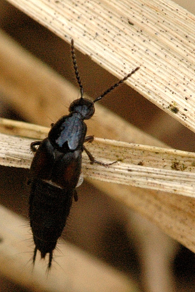 Gabrius exiguus from Commanster, Belgian High Ardennes .